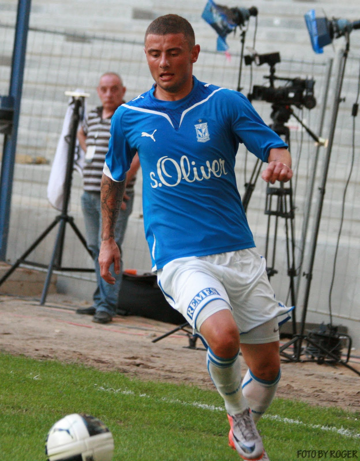 Polish football player Jakub Wilk